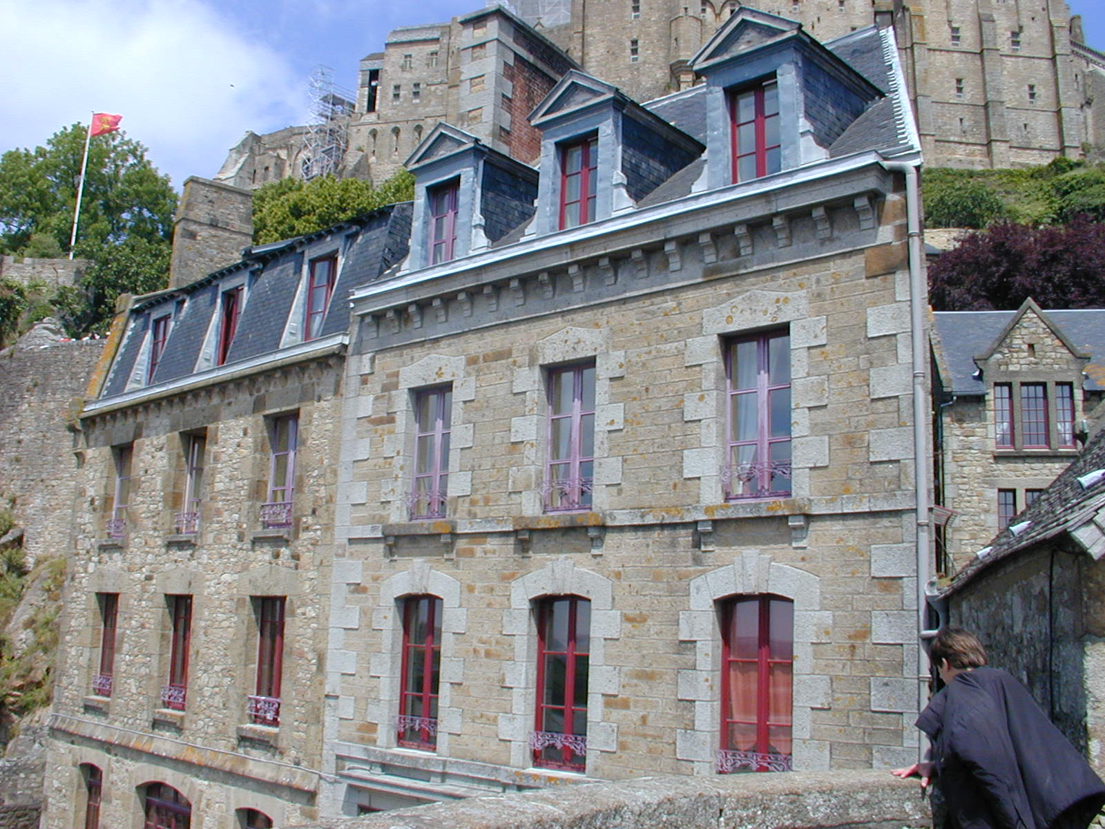 Mont Saint-Michel, frontage of the house of Mère Poulard